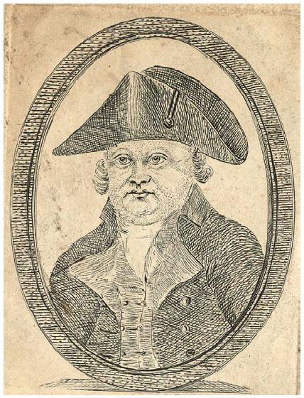 Engraving of John Boles Watson, theatre manager and impresario.